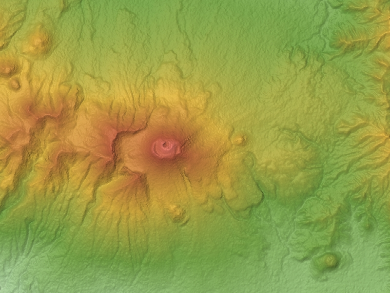 Massif of Asama Volcano (Mount Asama) in the border between Nagano and Gunma Prefectures, Honshu, Japan.